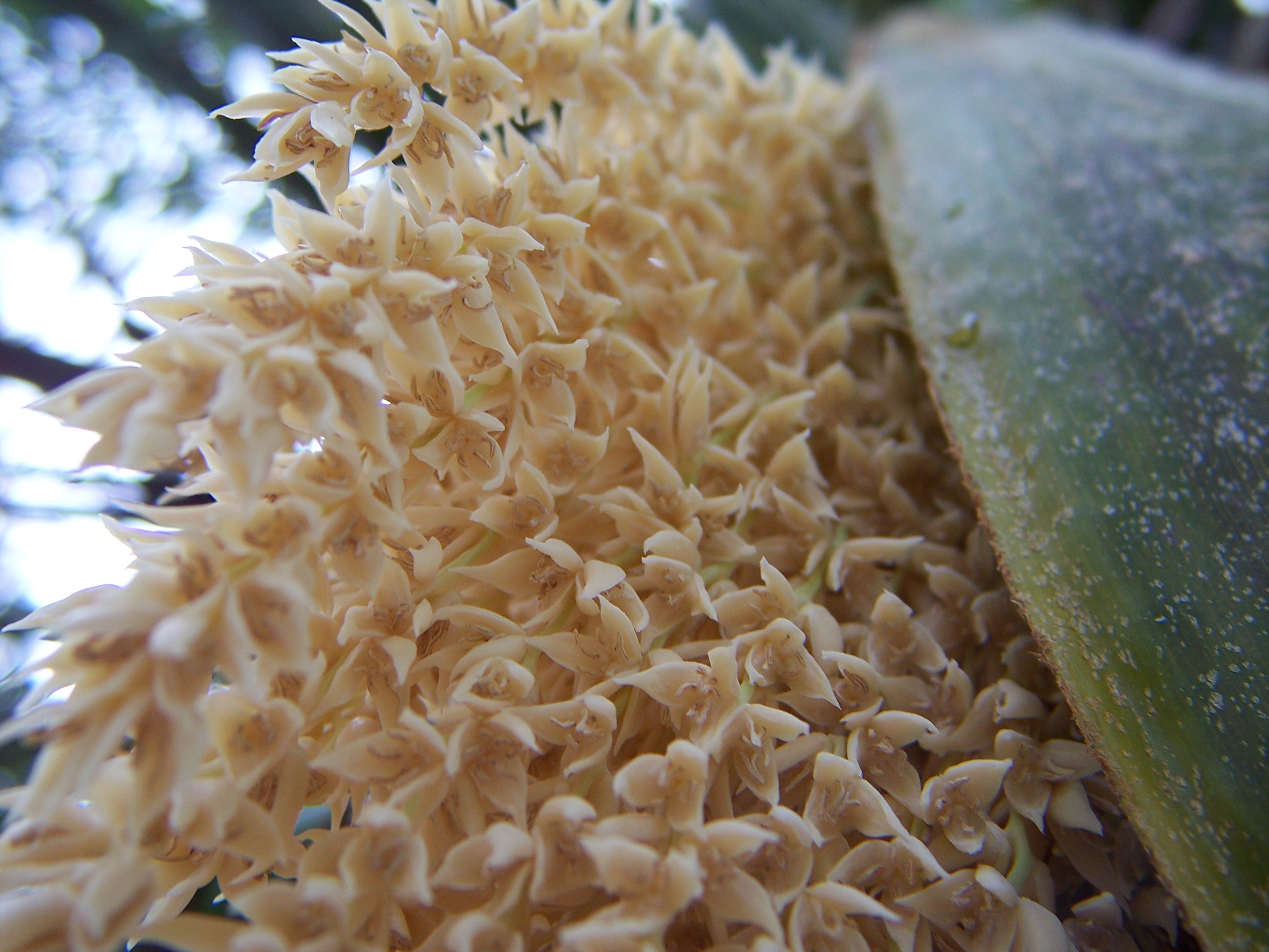 Male flowers of Phoenix roebelenii